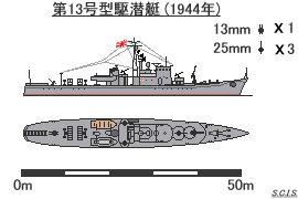 Figure of No.13 class submarine chaser of the Imperial Japanese Navy in 1944.